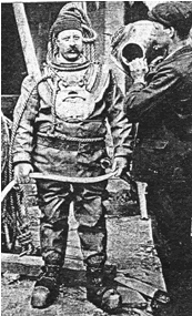 William Walker, the diver who saved Winchester Cathedral by shoring up its foundations